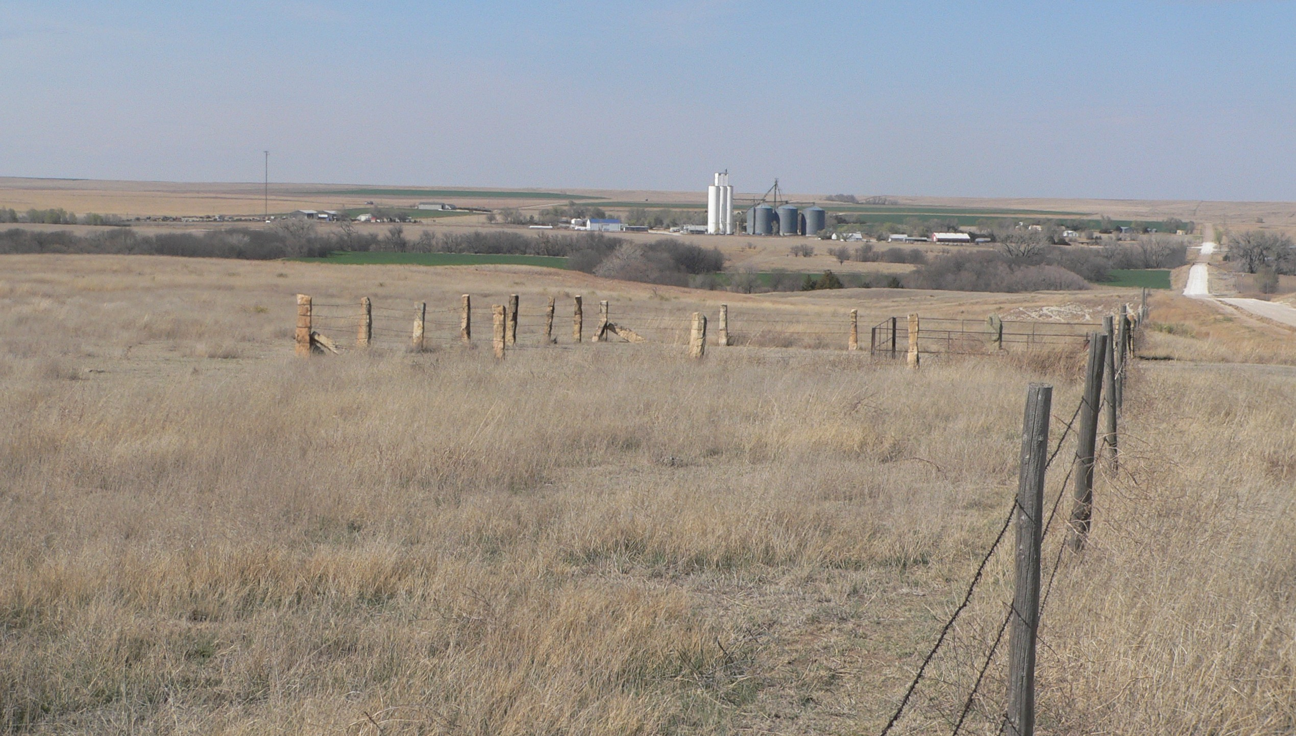 Monument marking site of George Washington Carver's 1886 homestead south of Beeler in rural Ness County, Kansas. According to the plaque on the monument, it is located at the northeast corner of the quondam Carver homestead. Camera is facing north; Beeler is in the background.